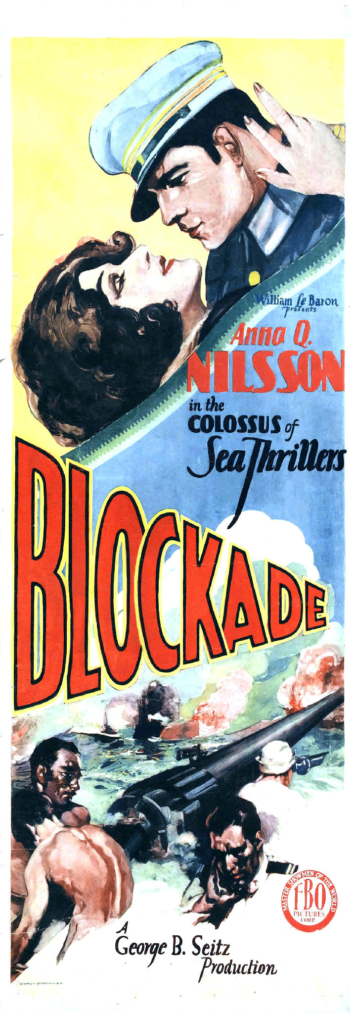 Poster for the 1928 film Blockade. There are no copyright marks. At bottom left is Country of origin USA.